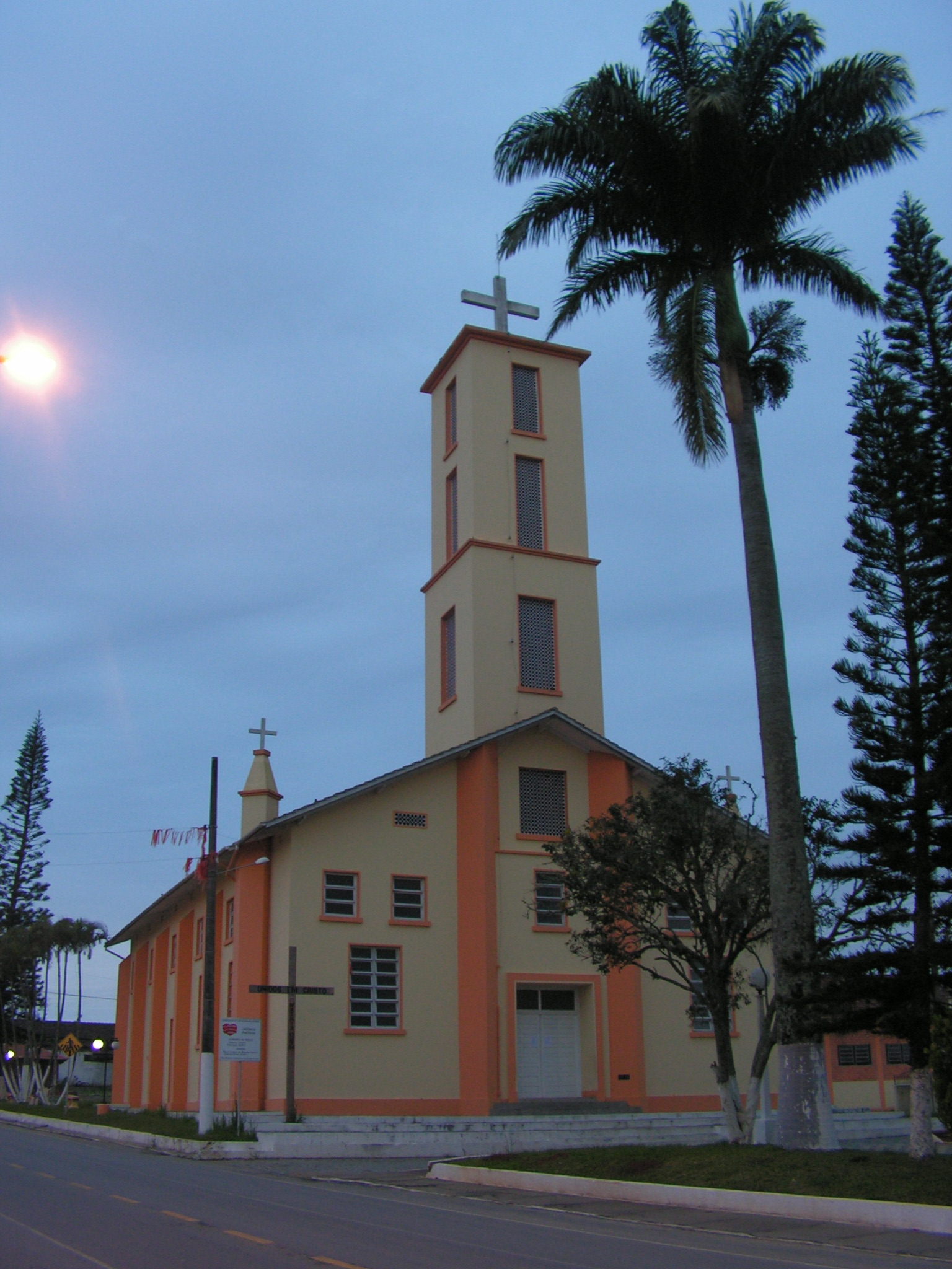 Main church in Penha (SC), Brazil. Picture taken by user Indech.